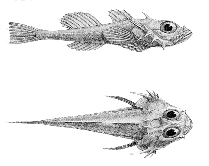 Zesticelus bathybius